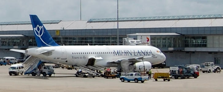 The ramp area of Bandaranaike International Airport in Colombo, Sri Lanka